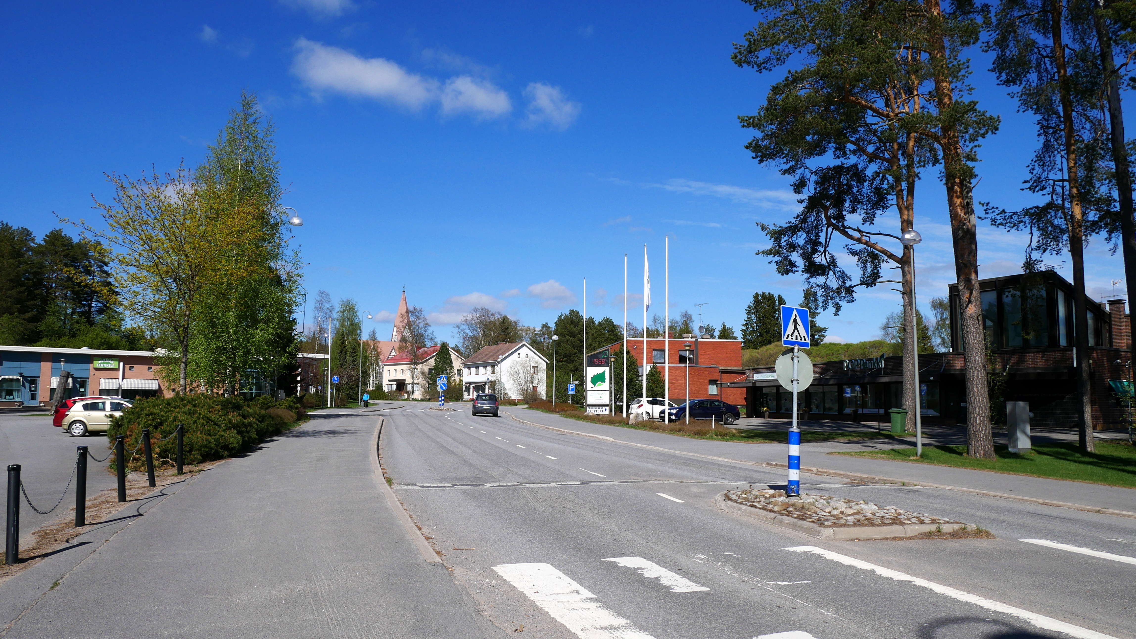 Härmäntie road in Alahärmä, Finland.